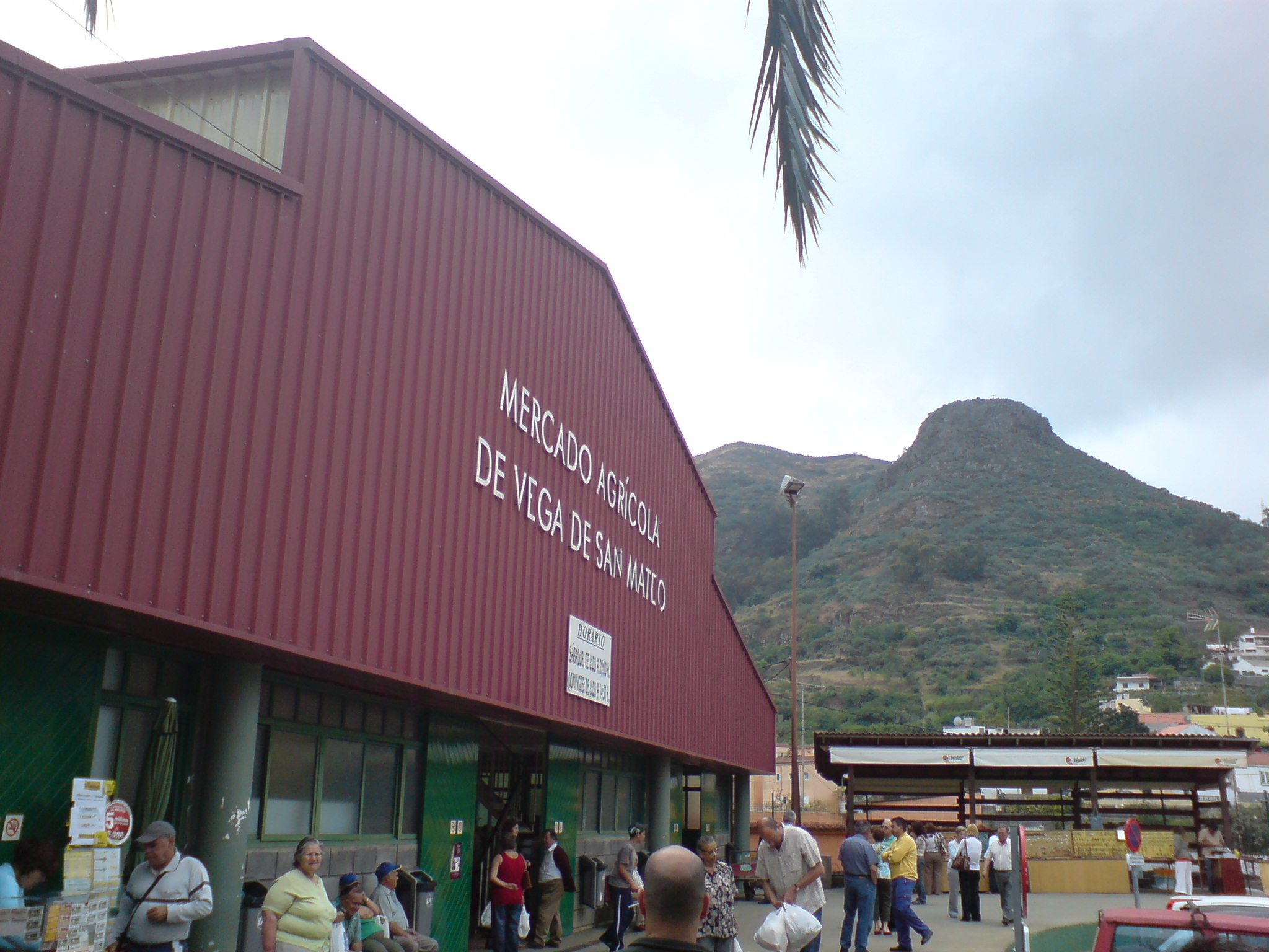 Vega de San Mateo Agricultural market, Gran Canaria (Canary Islands)